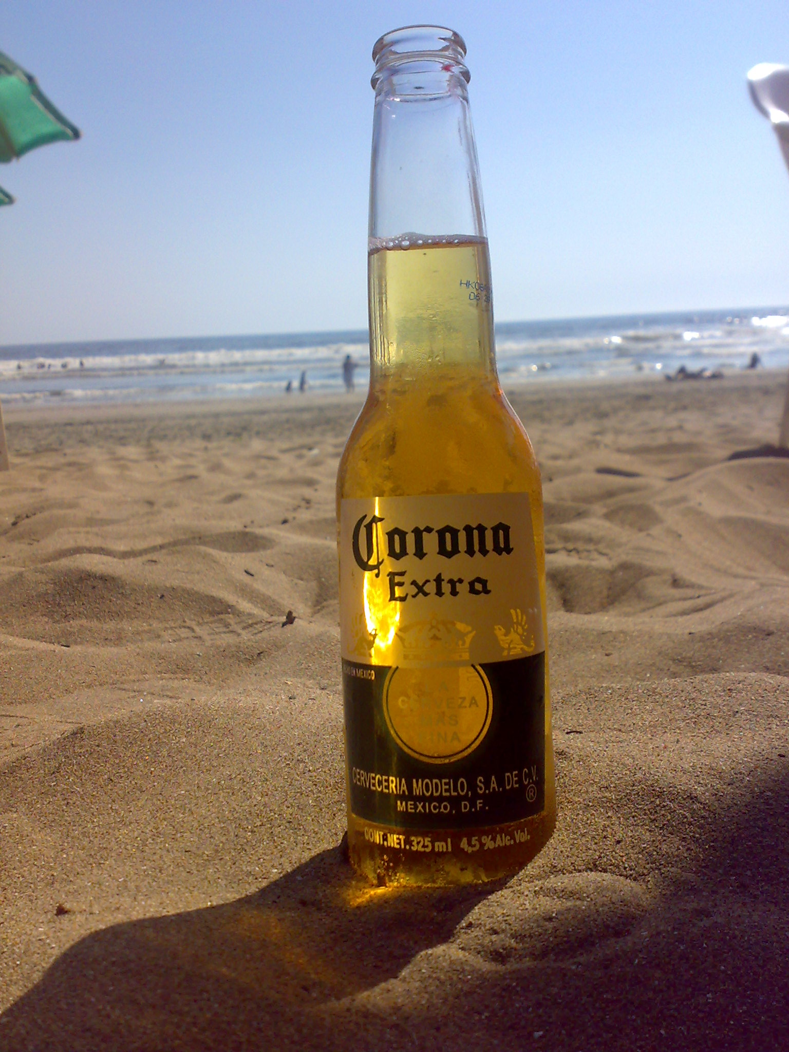 A bottle of Corona on the pacific coast of Mexico. Picture taken by me